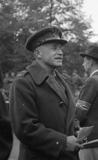 Portrait of General Sir Richard O'Connor at Helmond, Holland.